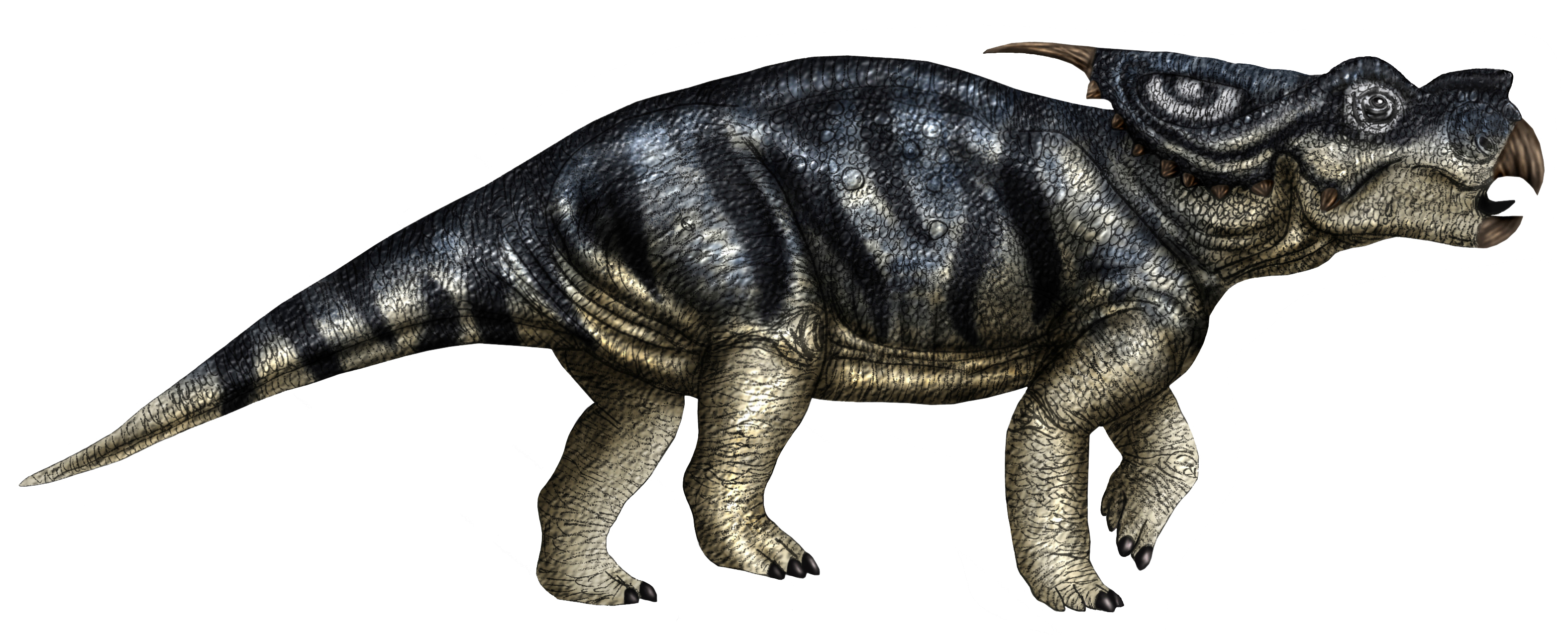 Restoration of Achelousaurus. Matches proportions shown in Gregory S. Paul (The Princeton Field Guide to Dinosaurs, 2010, p. 263)